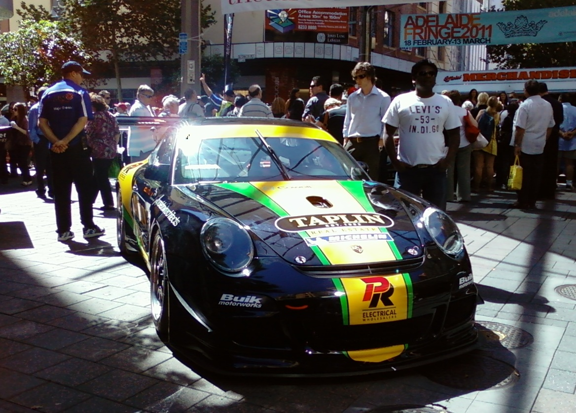 Porsche 911 GT3 Cup Type 997 of Andrew Taplin, on display in Rundle Mall, Adelaide prior to Round 1 of the 2011 Australian GT Championship.